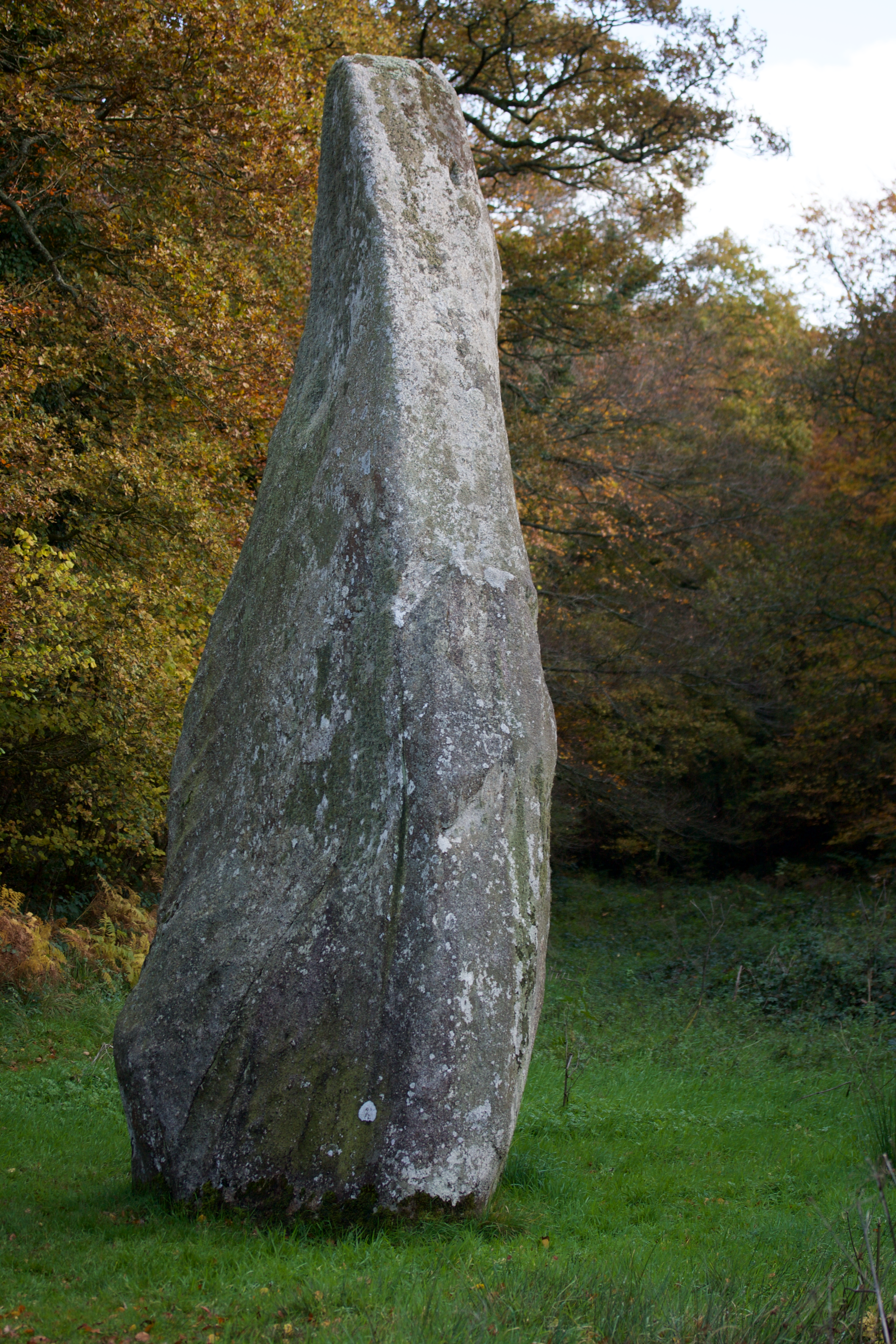 Pergat's Menhir, located in Louargat, Côtes d'Amor, Brittany, France